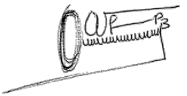 President of Burundi Pierre Nkurunziza personal signature